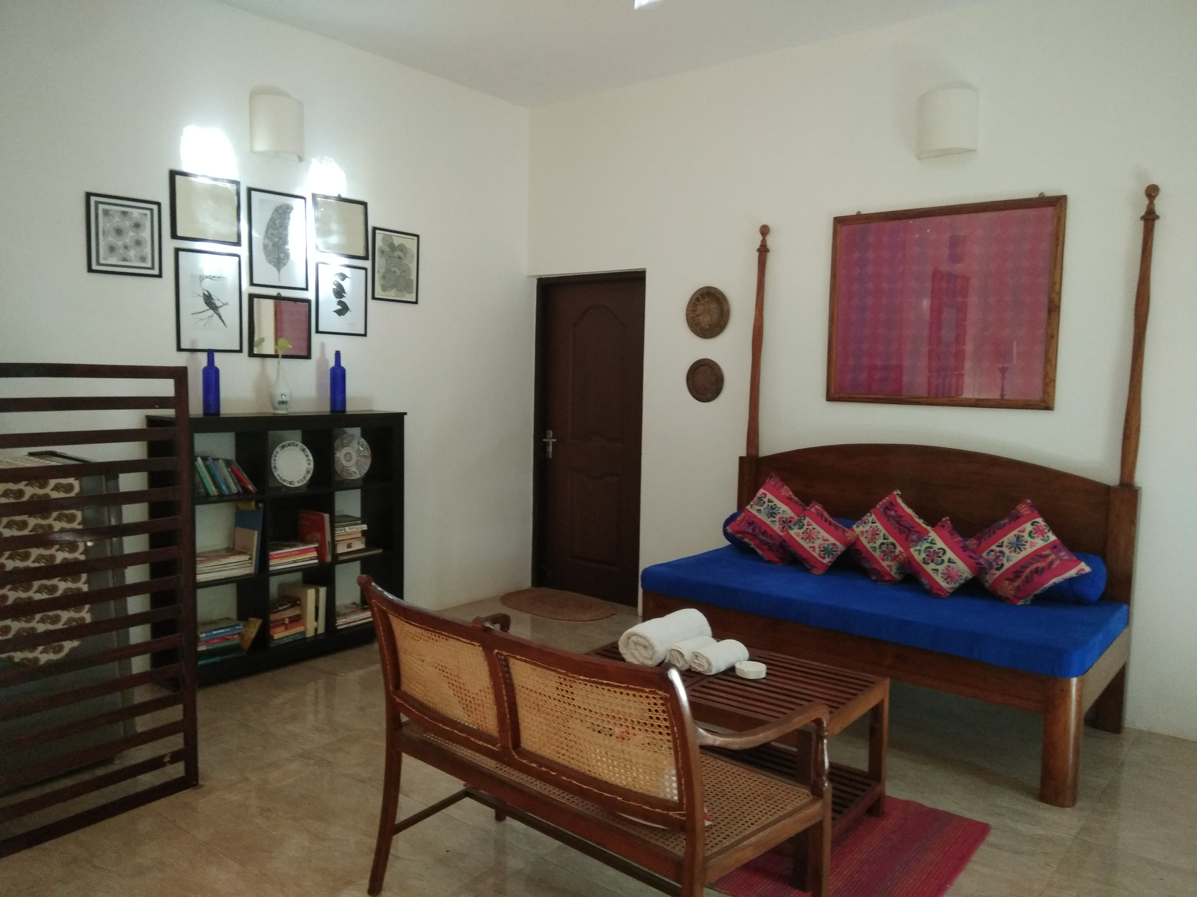 Mandarem house interior